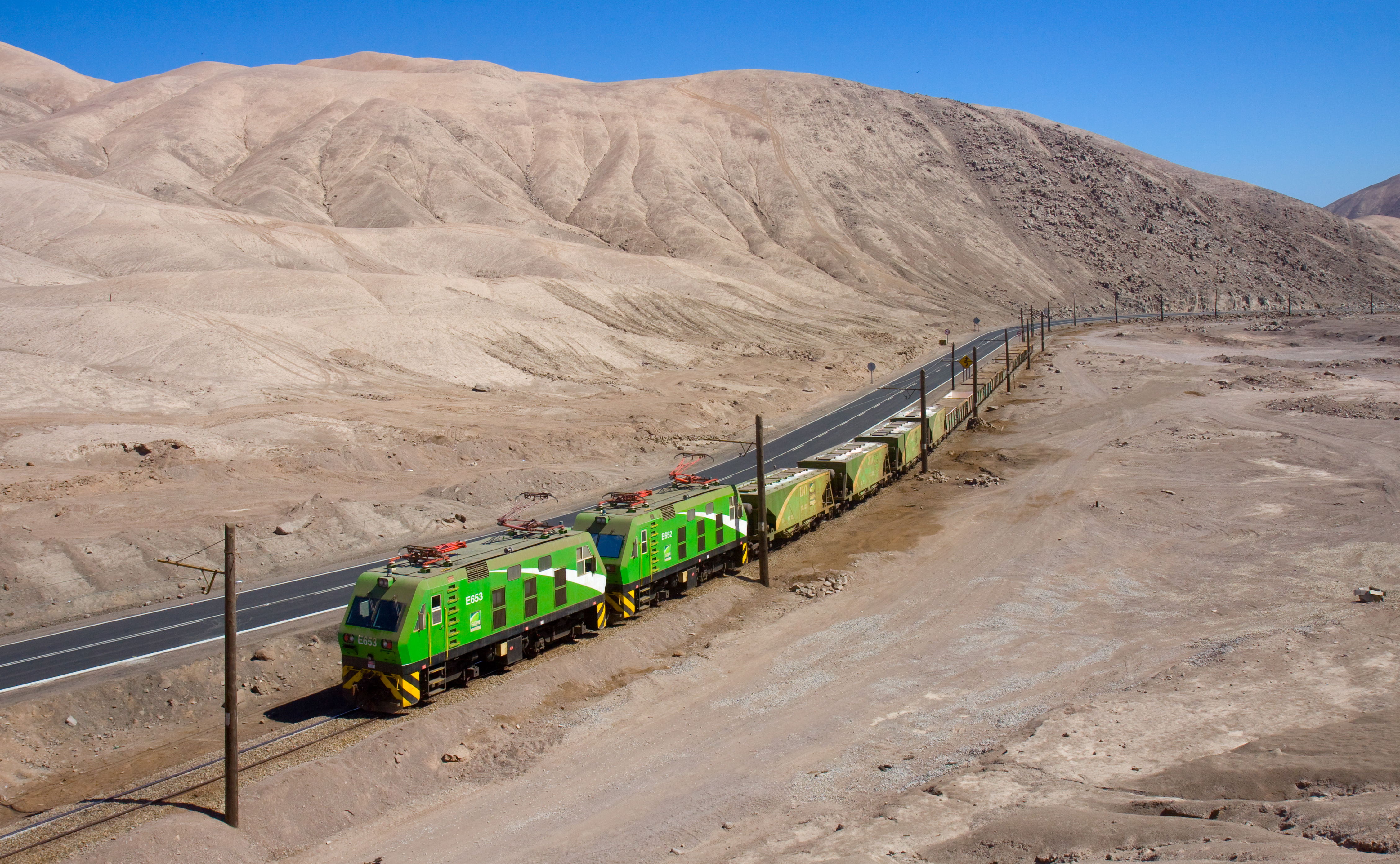 Two modern SQM engines have nearly reached Barriles, where the eletrification ends and the train will be taken over by a diesel engine. The line connects Maria Elena with Tocopilla, Chile.